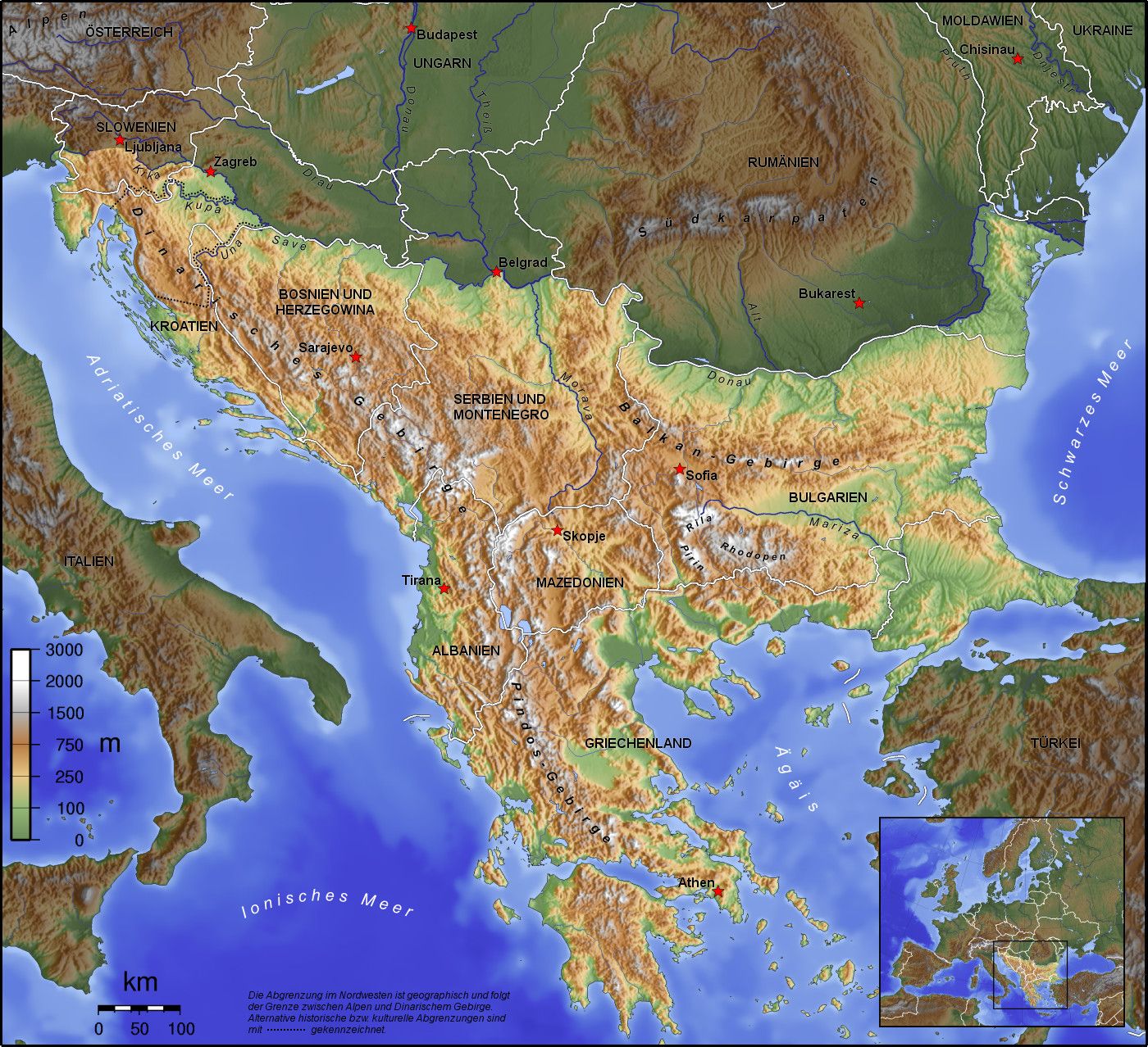 Topographic map of Balkan (german description).